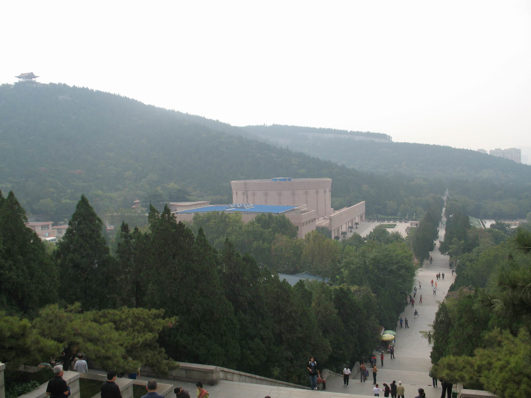 Jinan revolutionary martyr cemetery,view from north.